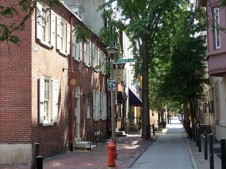 This is a picture of Camac Street in Philadelphia's Washington Square West neighborhood. To the left is the Philadelphia Sketch Club, the oldest existing artists club in the United States. The picture was taken by user Sbacle in August of 2007 for the Washington Square West article. Category:Images of Philadelphia, Pennsylvania